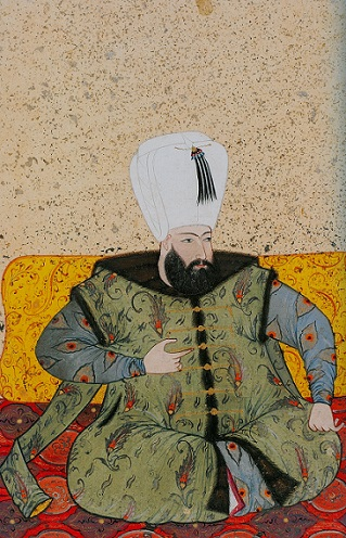 Sultan Ahmed I